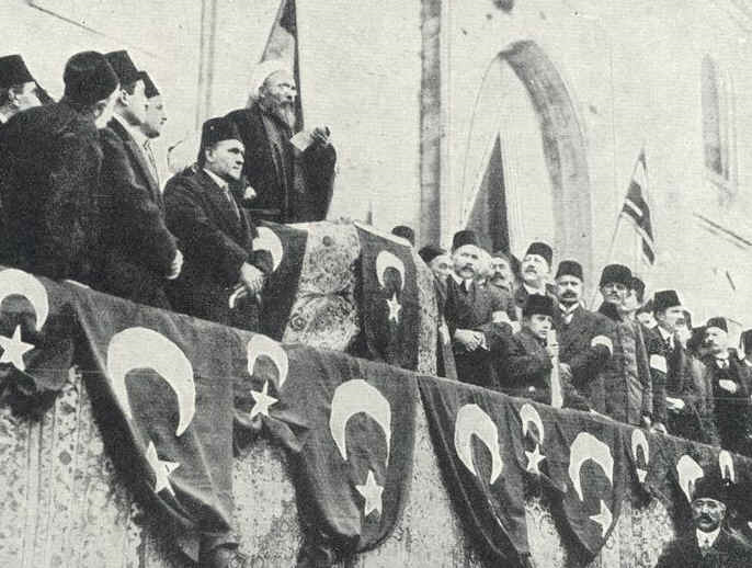 Ottoman Empire Declaration of War during WWI